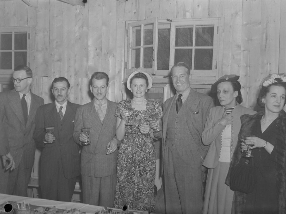 The fanciful French singer Maurice Chevalier, in suit, has a drink with friends at Islesmere golf clubhouse Sainte-Dorothée Laval.